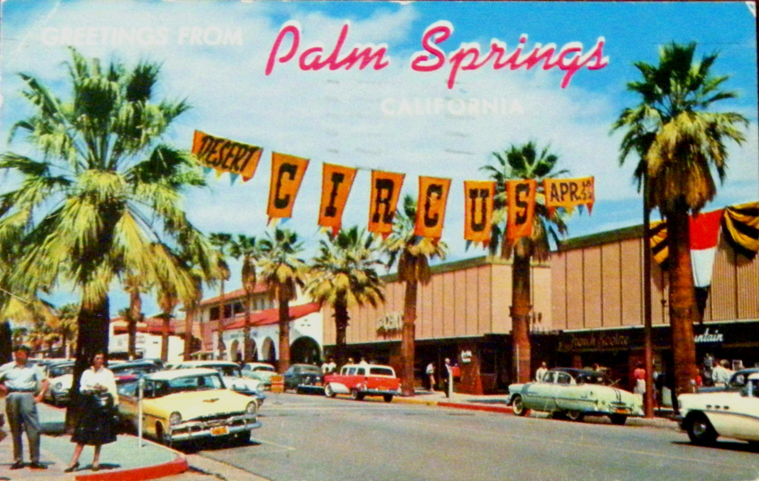 Color photochrome postcard depicting Palm Canyon Drive (California State Route 111) in Palm Springs, California in the 1950s. This postcard is postmarked from Palm Springs, California on February 28, 1959. The back of the postcard reads: PS-125---PALM CANYON DRIVE PALM SPRINGS, CALIFORNIA Showing a portion of the business section and the famous palm-lined main thoroughfare. POSTCARDS OF THE DESERT, CATHEDRAL CITY, CALIF. NATURAL COLOR REPRODUCTION–CURTEICHCOLOR ® ART CREATION REG. U. S. PAT OFF.